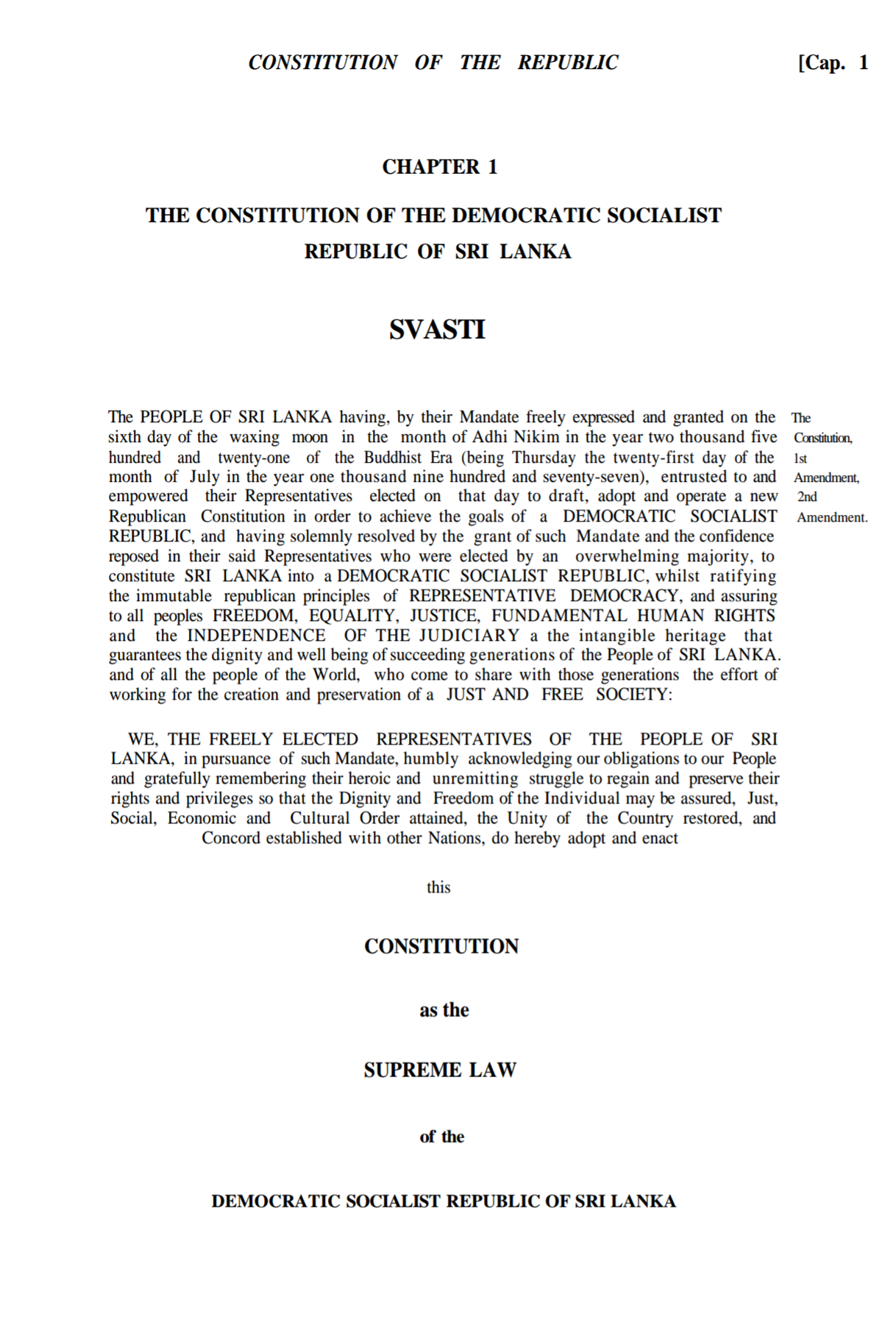 First page of the 1978 constitution of Sri Lanka